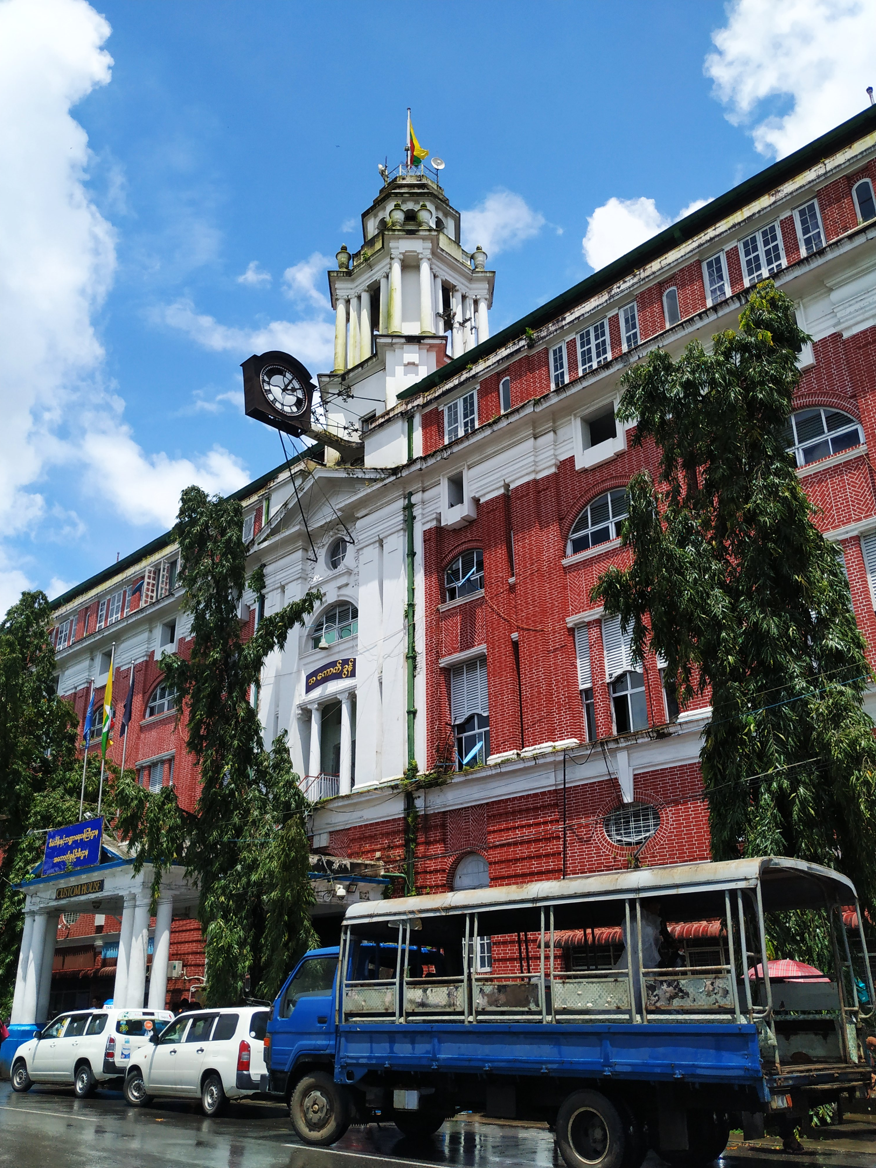 Custom House, Strand Road, Yangon မြန်မာဘာသာ: အကောက်ခွန်၊ ကမ်းနားလမ်း၊ ရန်ကုန်မြို့